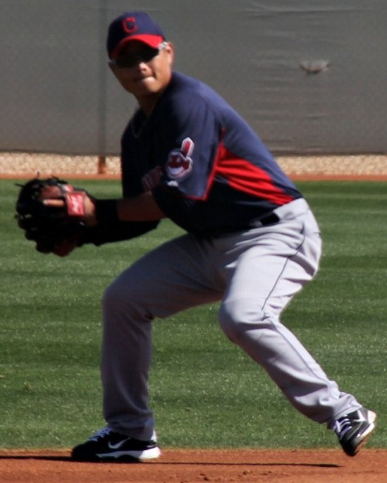 Hu in 2012